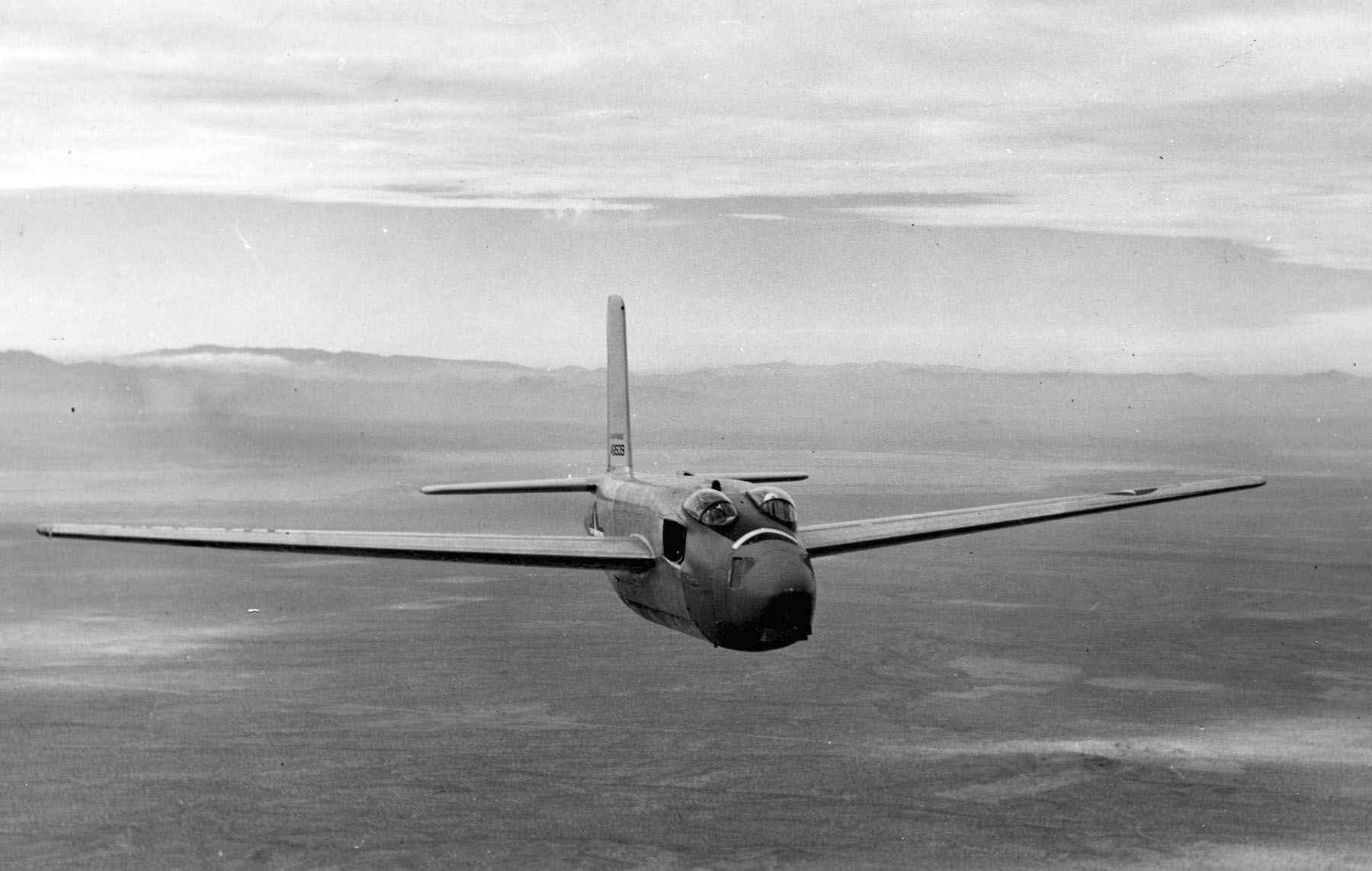 Douglas YB-43